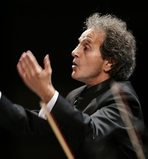 Shahrdad Rohani in Vezarat Keshvar Hall